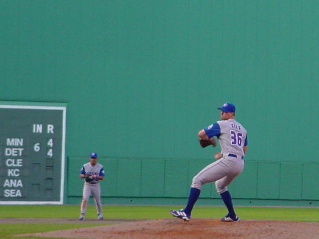 Bob File @ Fenway Park 2001